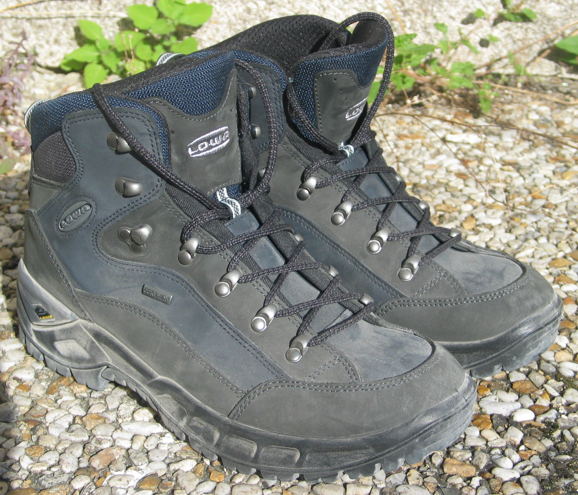 Hiking shoes (Lowa)